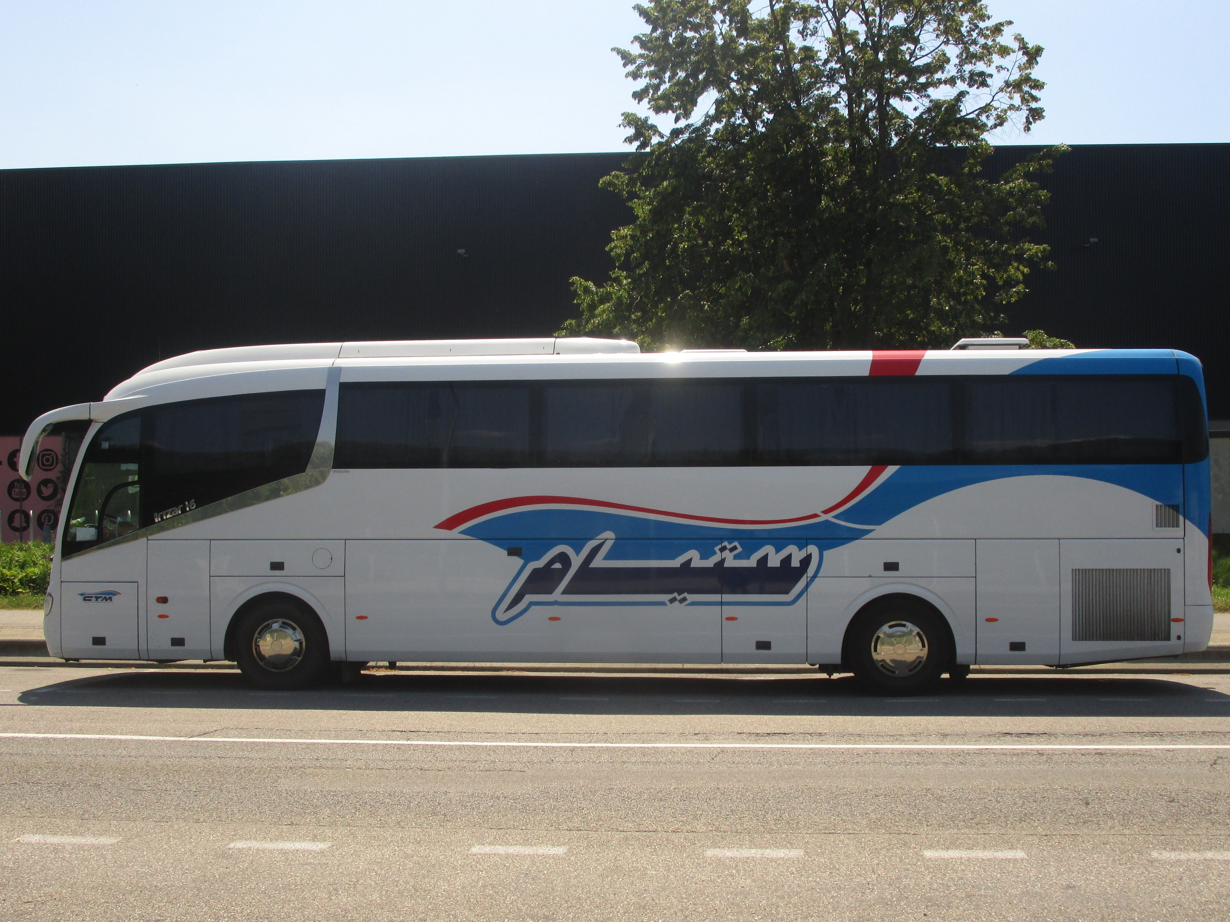 An Irizar i6 (n°5309 of the CTM) in Avenue des Landiers (Chambéry, France) on June 19, 2017.